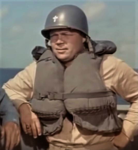 Hal Baylor in Away All Boats (1956) - cropped screenshot